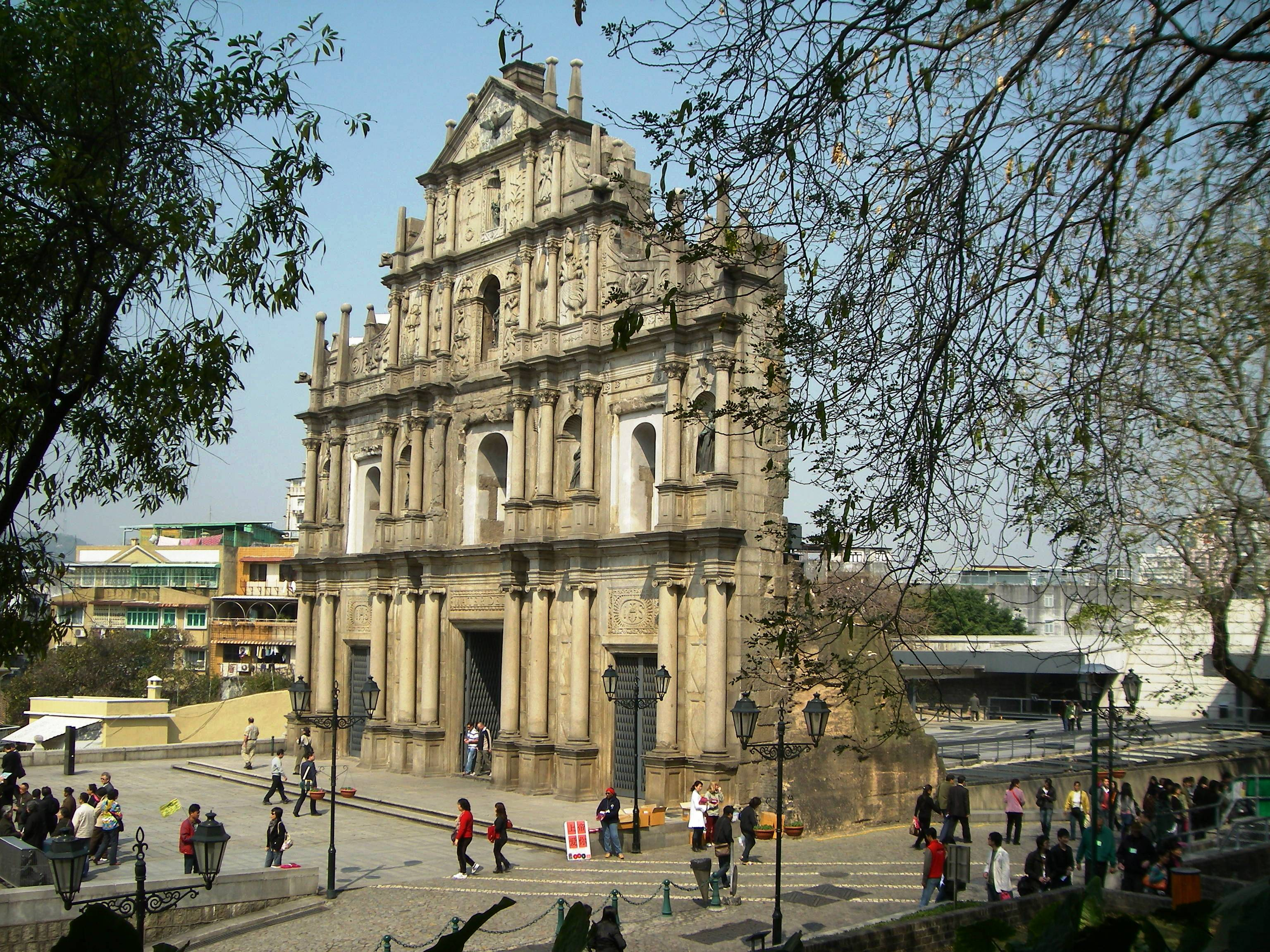 St Paul's Ruins from St Paul's Hill, Macau